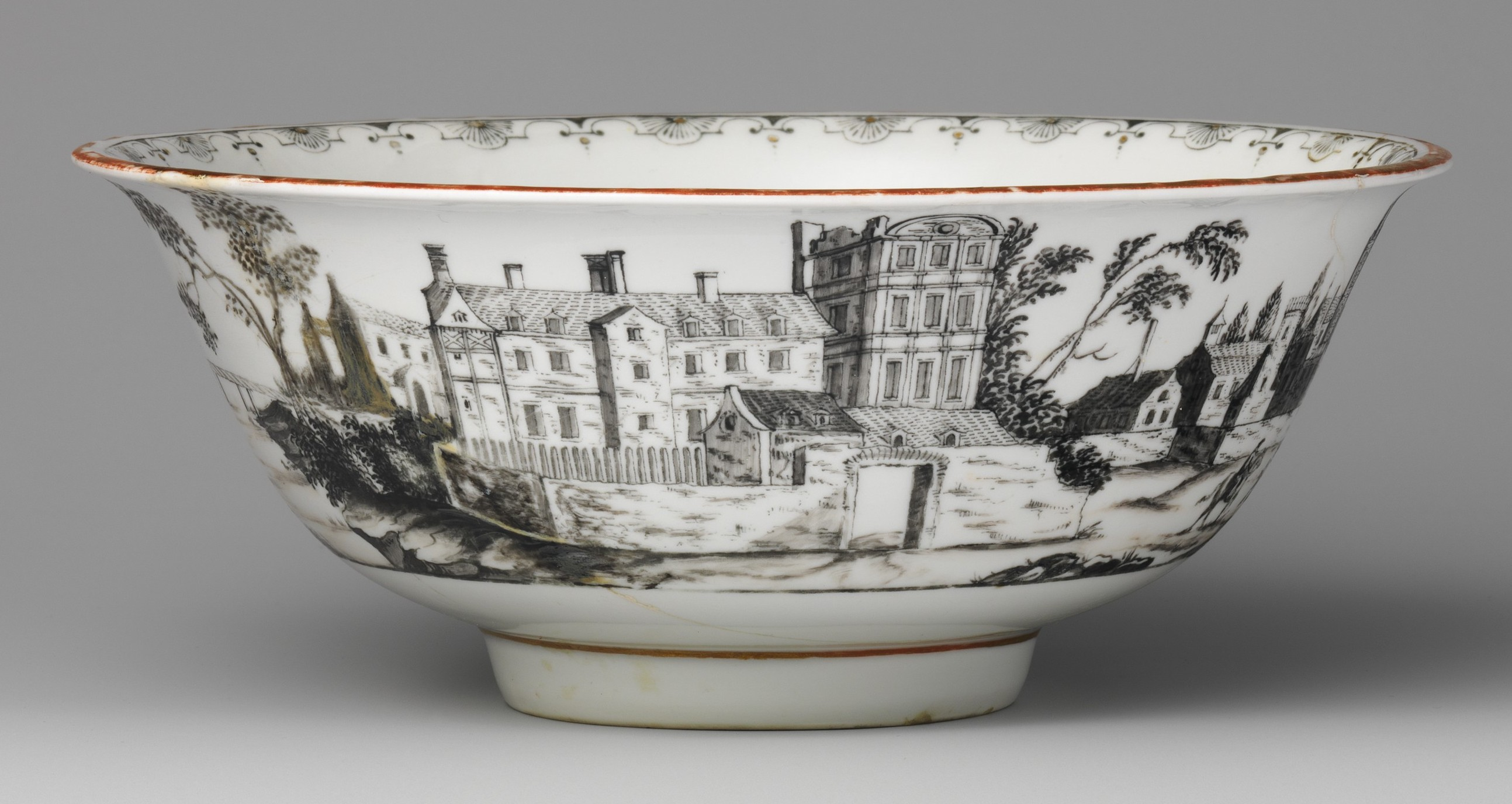 Austrian, Vienna; Slop bowl; Ceramics-Porcelain